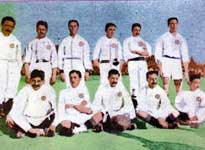 Madrid FC Champion 1907